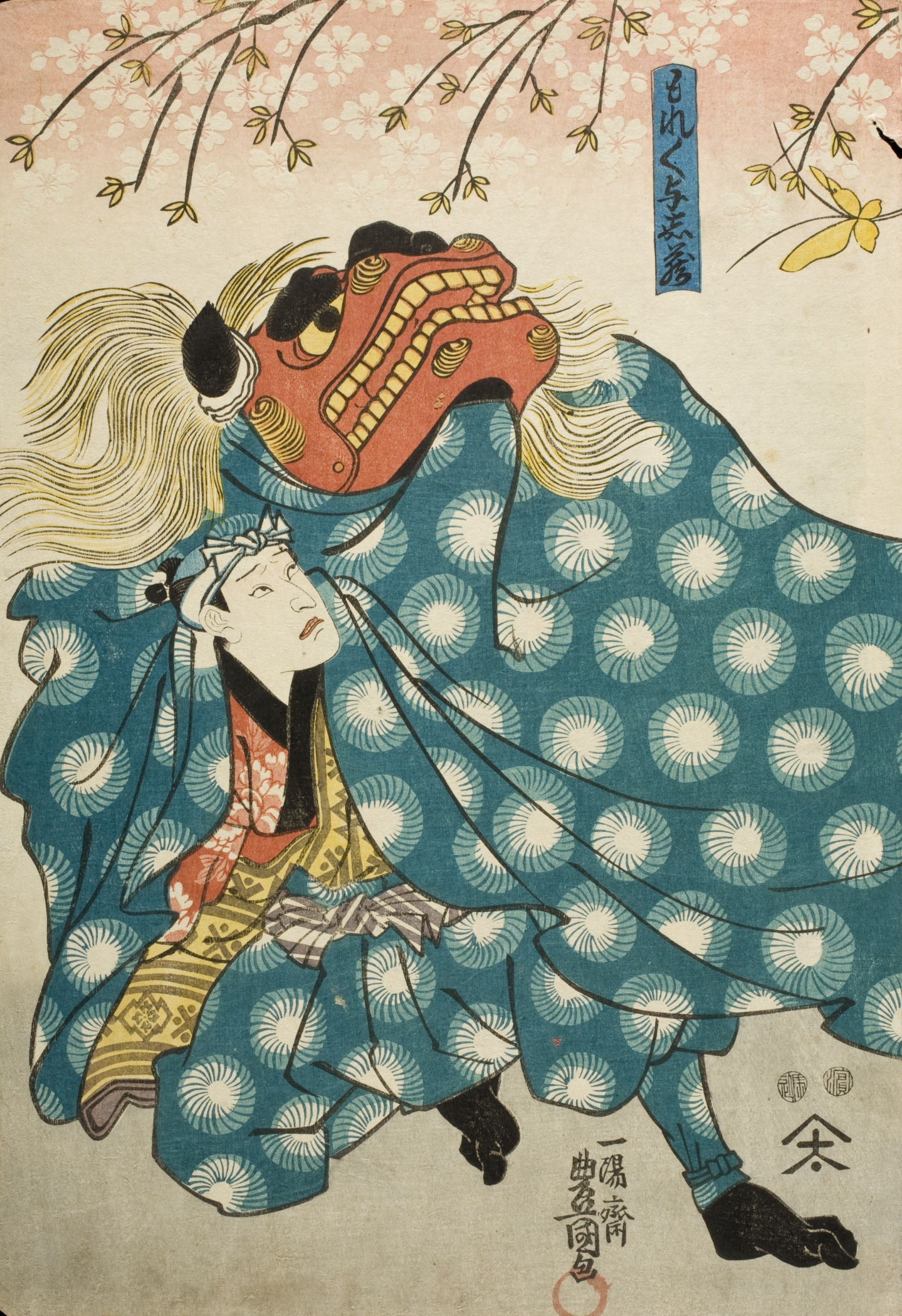 circa 1850 Prints; woodcuts Color woodblock print triptych Sheet: 14 x 28 5/8 in. (35.56 x 72.71 cm) The Joan Elizabeth Tanney Bequest (M.2006.136.278a-c) Japanese Art